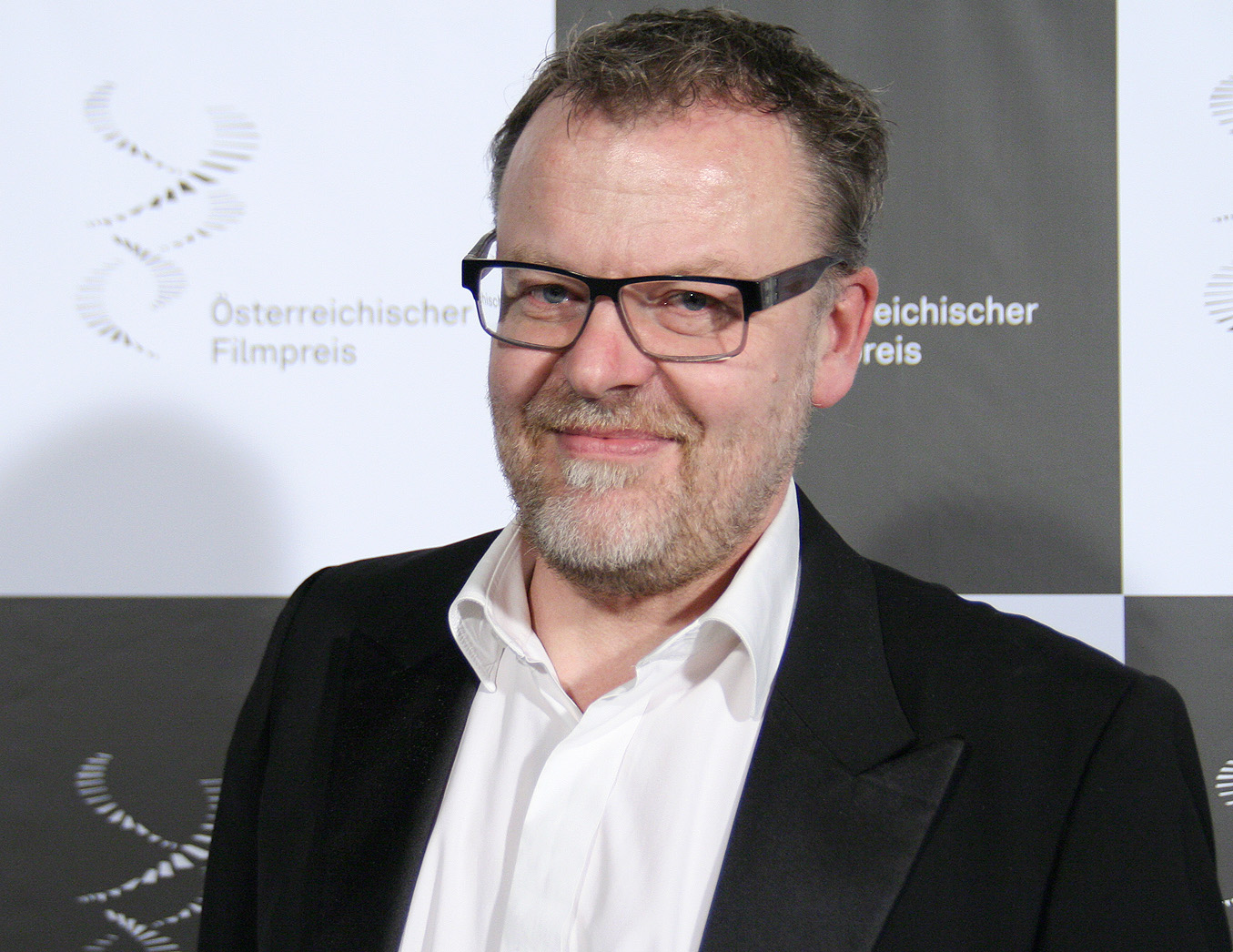 Stefan Ruzowitzky, Austrian Film Awards 2012 (Vienna).